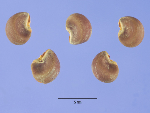 Malva assurgentiflora (syn: Lavatera assurgentiflora) — Island Mallow or Island Tree Mallow − seeds. Endemic species of the Channel Islands in Southern California.